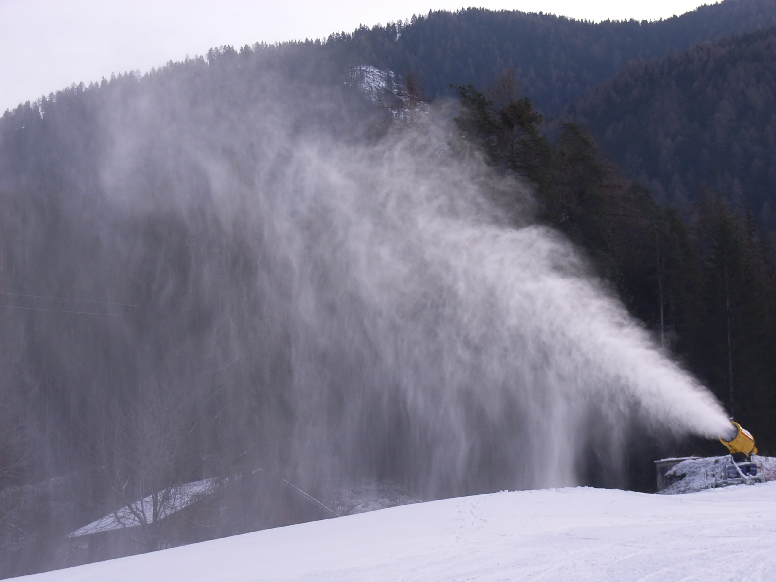 Italy, South Tyrol: Snow cannon at work.